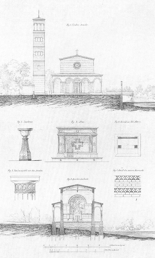 Elevation (west side), profile and details, Heilandskirche am Port von Sacrow, Potsdam, Germany